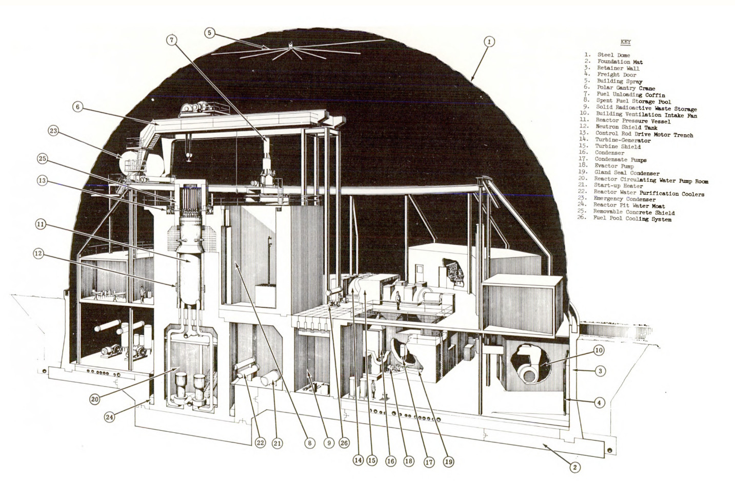 The contents of the dome of the Boiling Nuclear Superheater Power Station in Puerto Rico. The dome is still visible at Domes Beach. This is shown in the BONUS Final Summary Design Report (PRWRA-GNEC-6) as figure 208-1 on page 59.